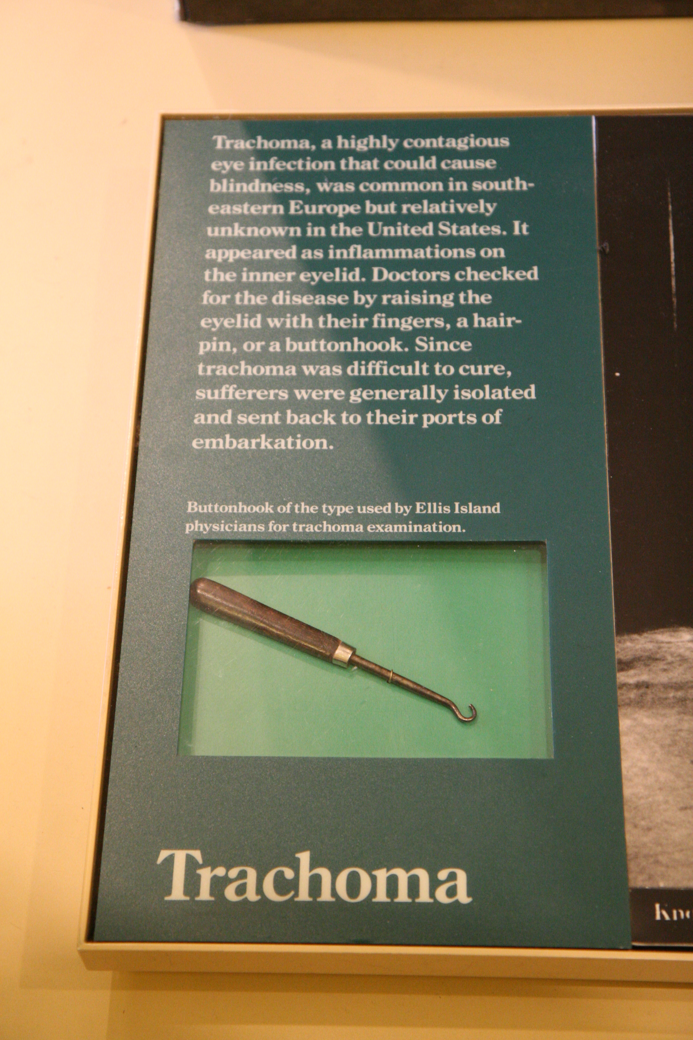 Text written: "Trachoma, a highly contagious eye infection that could cause blindness, was common in south-eastern Europe but relatively unknown in the United States. It appeared as infalmmations on the inner eyelid. Doctors checked for the disease by raising the eyelid with their fingers, a hairpin, or a buttonhook. Since trachoma was difficult to cure, sufferers were generally isoloated and sent back to their ports of embarkation. Buttonhook of the type used by Ellis island physicians for trachoma examination."